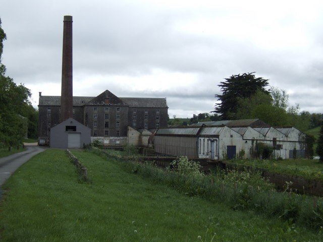 Slane Mill, Co. Meath Slane Mill is a very fine example of a mid-eighteenth century corn mill. The main mill building displays a level of carved detail that is unusual for an industrial building and more typically found in country houses of the period.